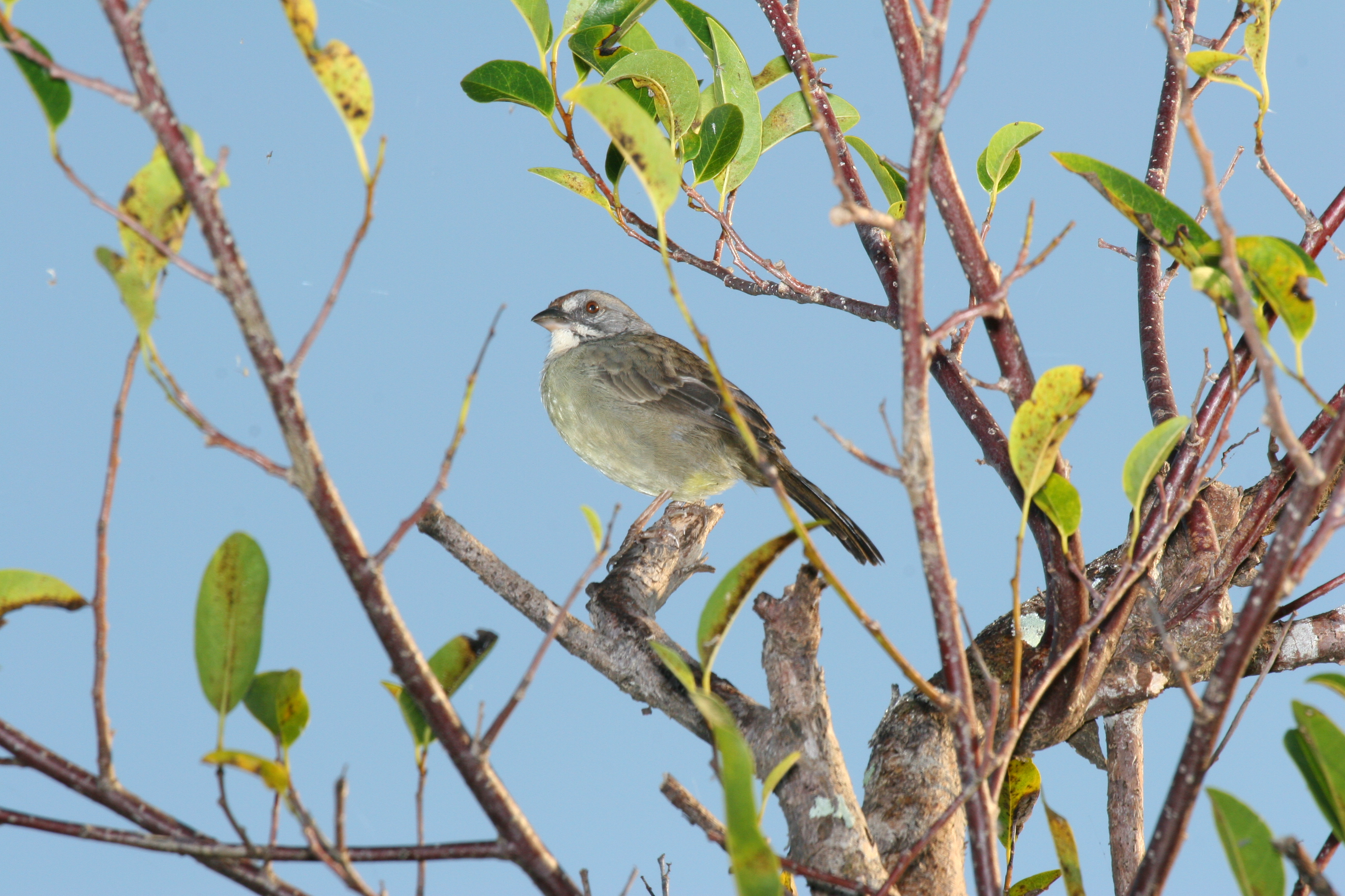 Zapata Sparrow (Torreornis inexpectata) Dysmorodrepanis 22:23, 30 May 2008 (UTC)